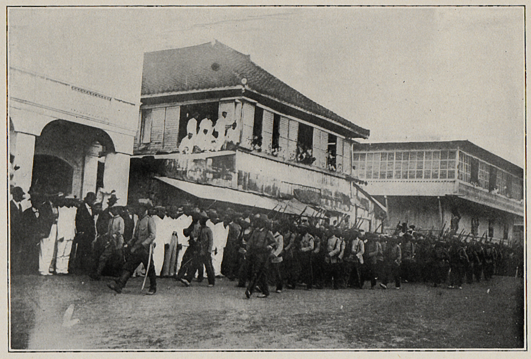 Filipino freedom figter Gen. Martin Teofilo Delgado marching into Jaro (Iloilo) on 2. Feb. 1901 ahead of 30 officers and 140 men to surrender to Brig. Gen. Robert P. Hughes, regional commander of the US imperialist forces occupying the country.